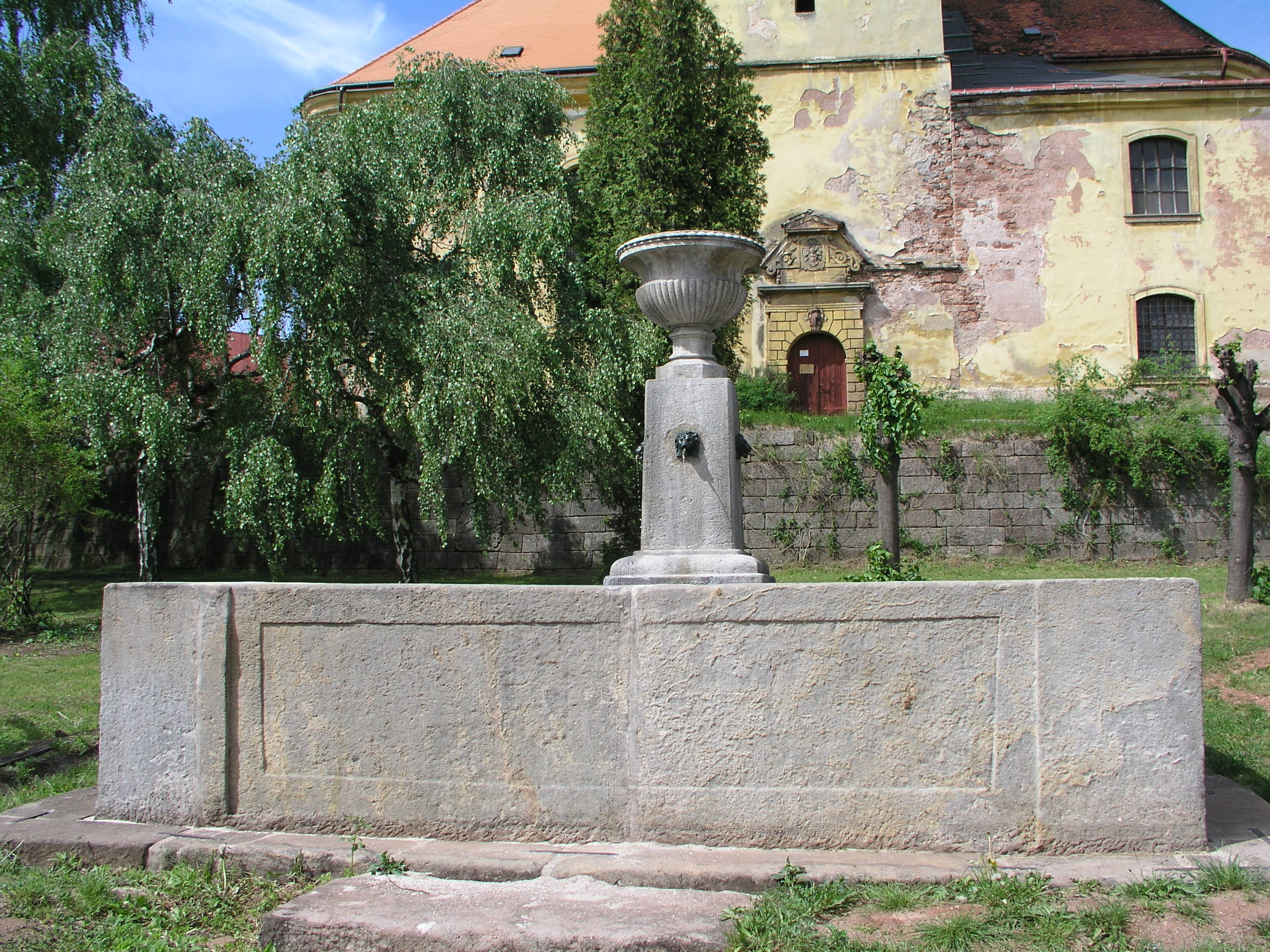 Fountain in town square in Pilníkov, Trutnov District, Hradec Králové Region, Czech Republic